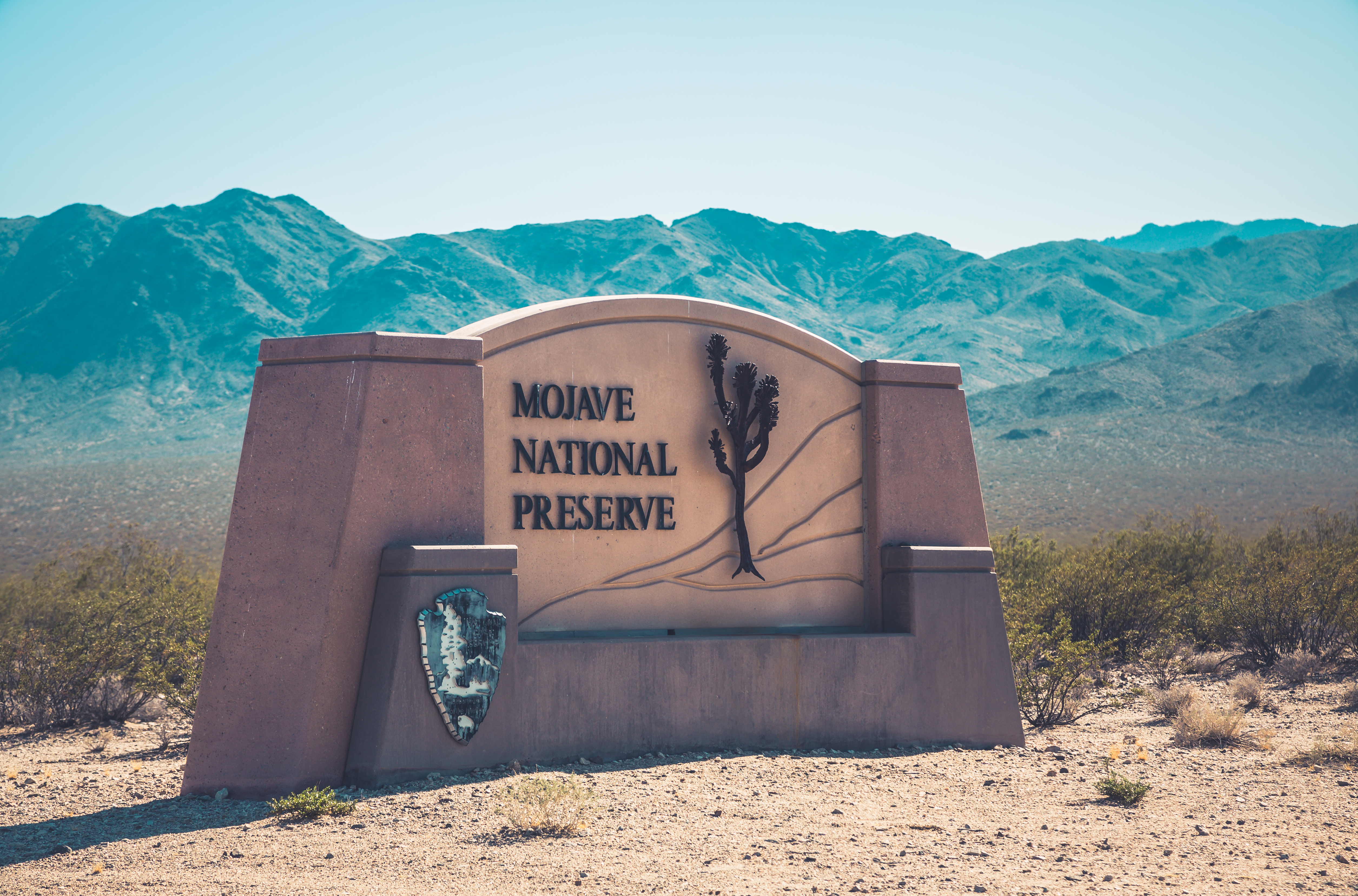 The entrance sign on the north end of the Mojave National Preserve in California.